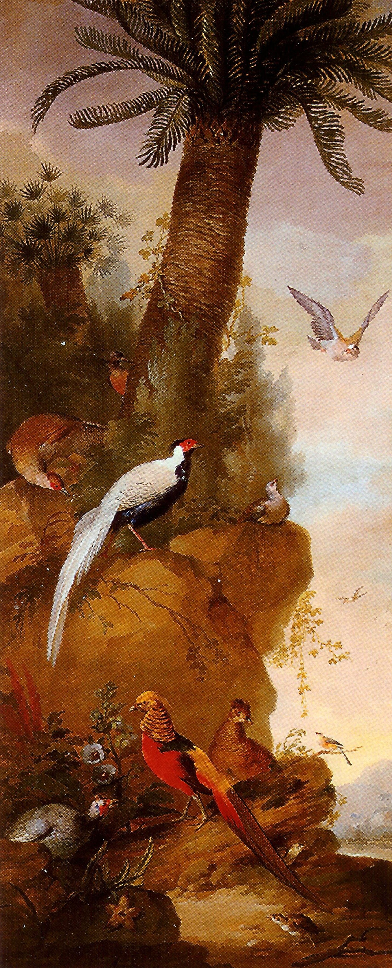 Aart Schouman or Aert Schouman (1710 - 1792): (Behangsel) Fazanten en andere vogels in een uitheems landschap, 1766 (Pheasants and other birds in an exotic landscape, 1766).